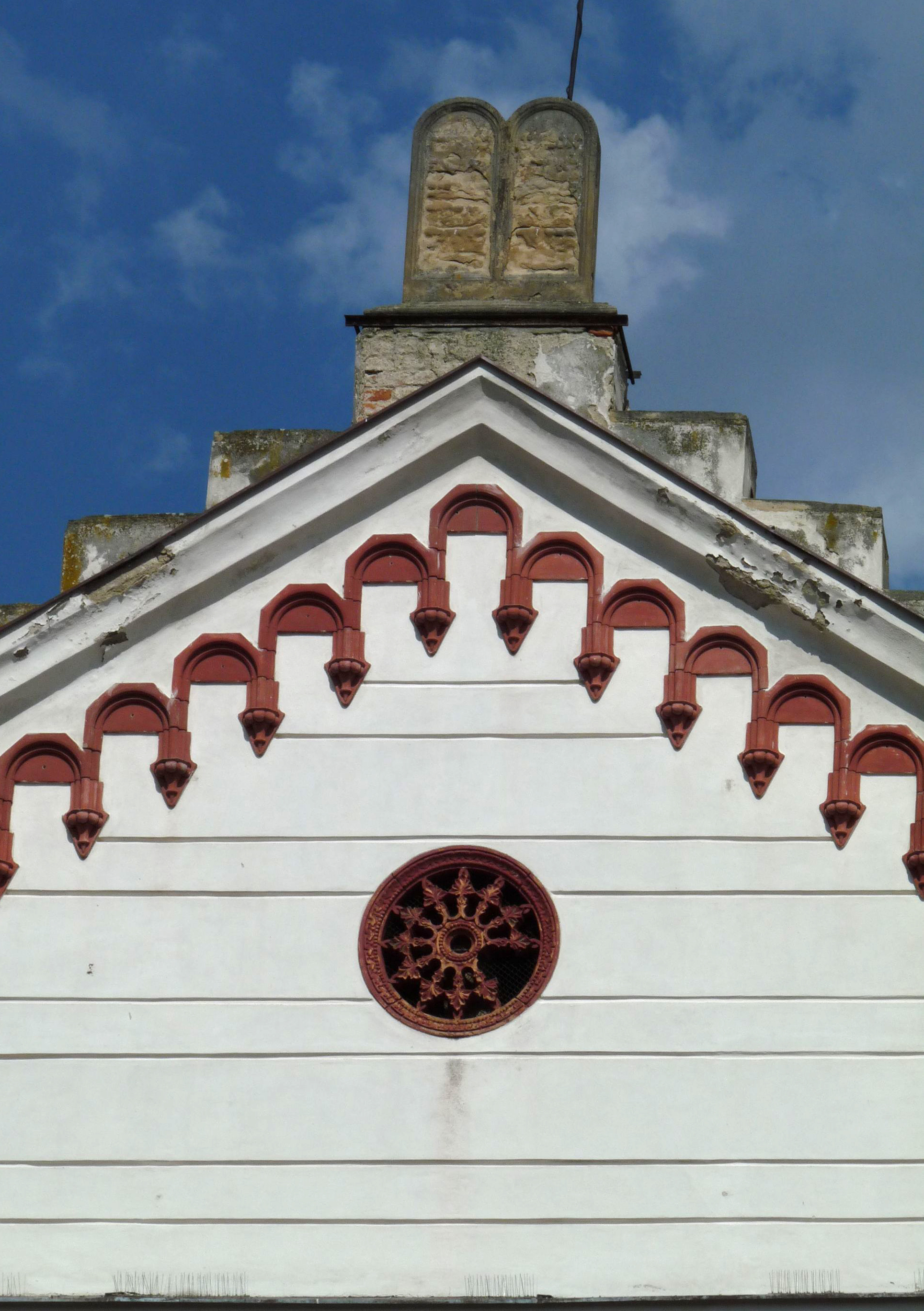 Gable of the former synagogue in the town of Slavkov u Brna, Vyškov District, Czech Republic. Česky: Štít bývalé synagogy ve městě Slavkov u Brna, okres Vyškov, Jihomoravský kraj.